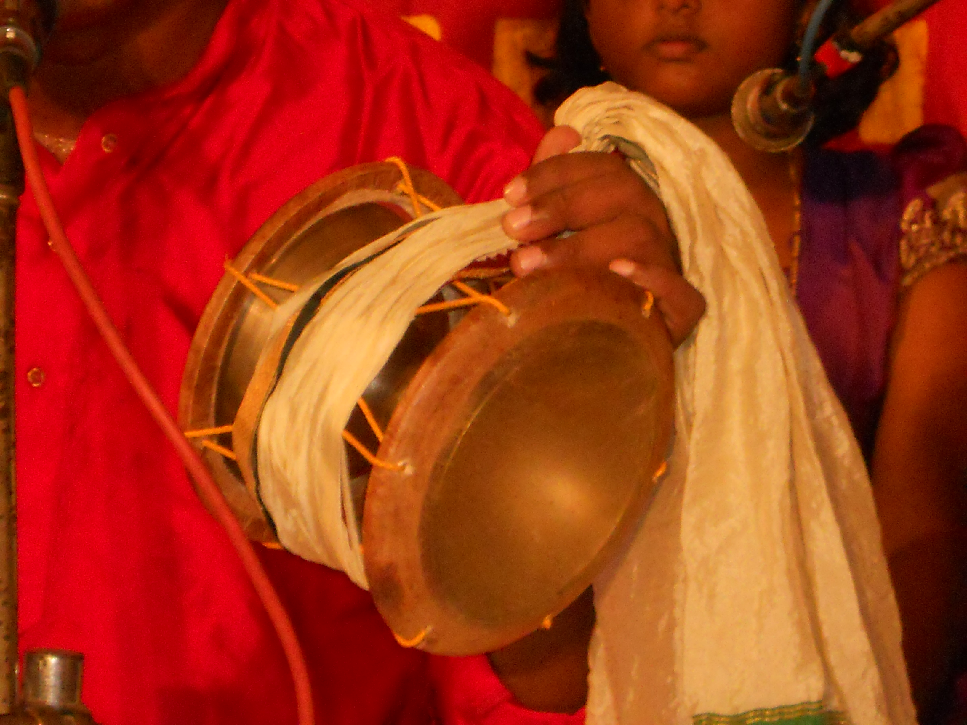 Udukku, The udukai is a drum used in folk music and prayers in South India. This comes in the Carnatic classical music of India.The Damru in the hands of Lord Shiva is also referred to as Udukkai.